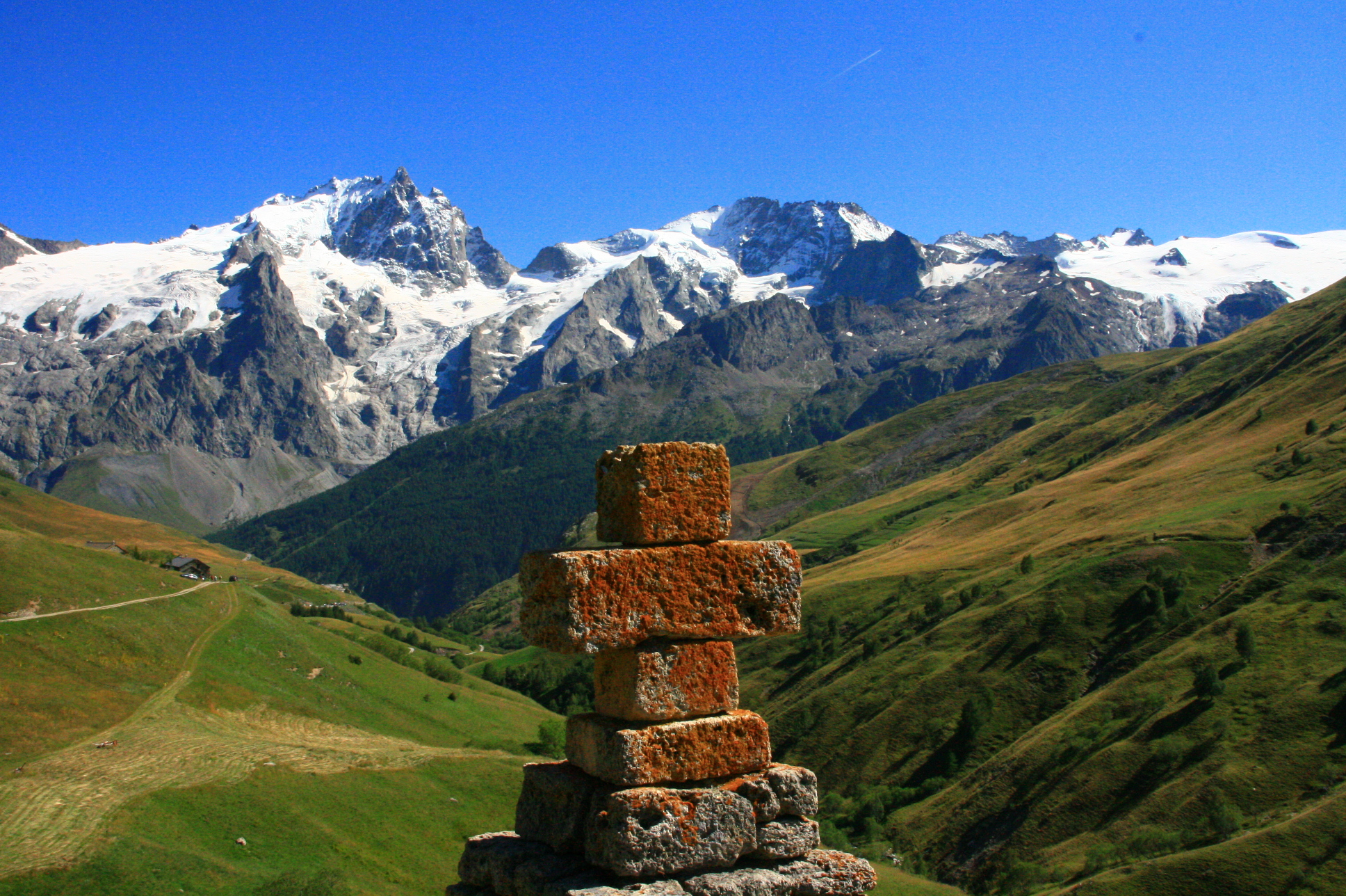 Vue de la La Meije depuis Les Buffes